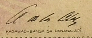 Antonio de las Alas' signature